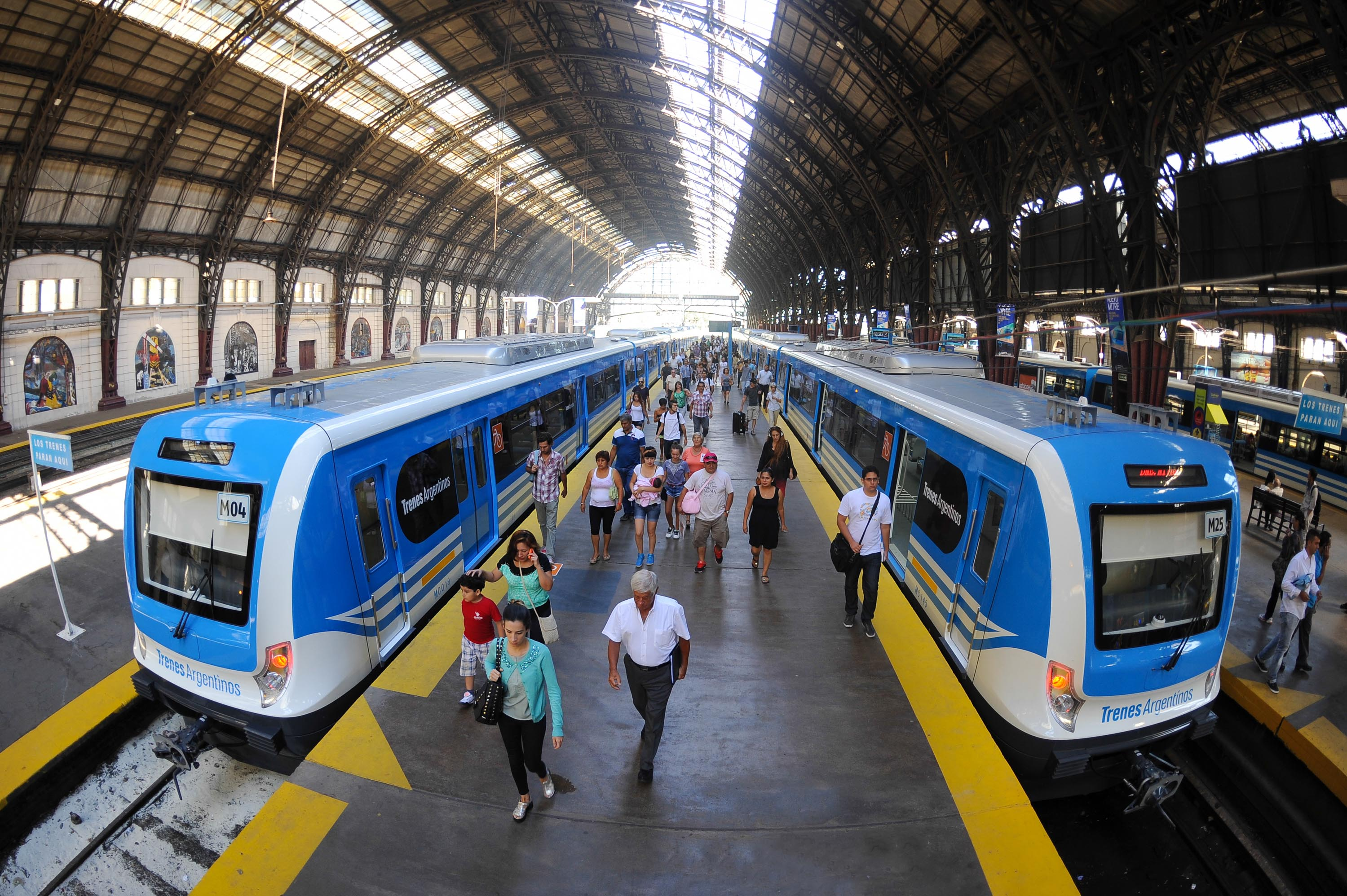 SOFSE Mitre Line EMUs at Retiro railway station